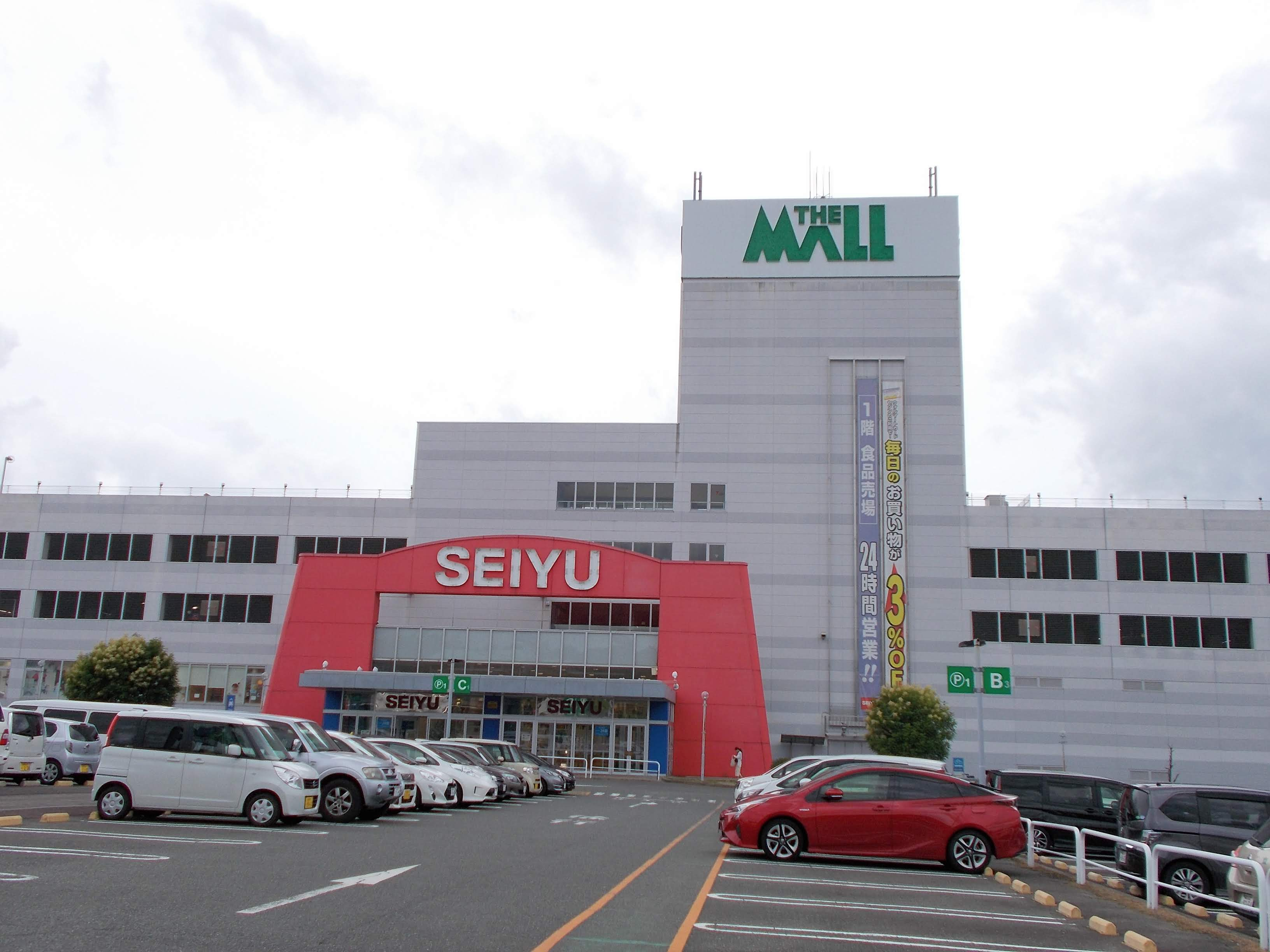 The Mall Kasuga, a shopping mall in Kasuga, Fukuoka, Japan